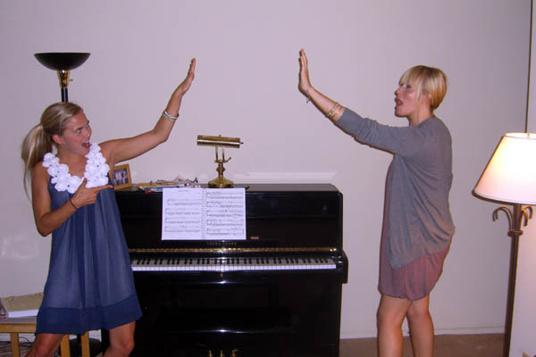 Example of Air Five